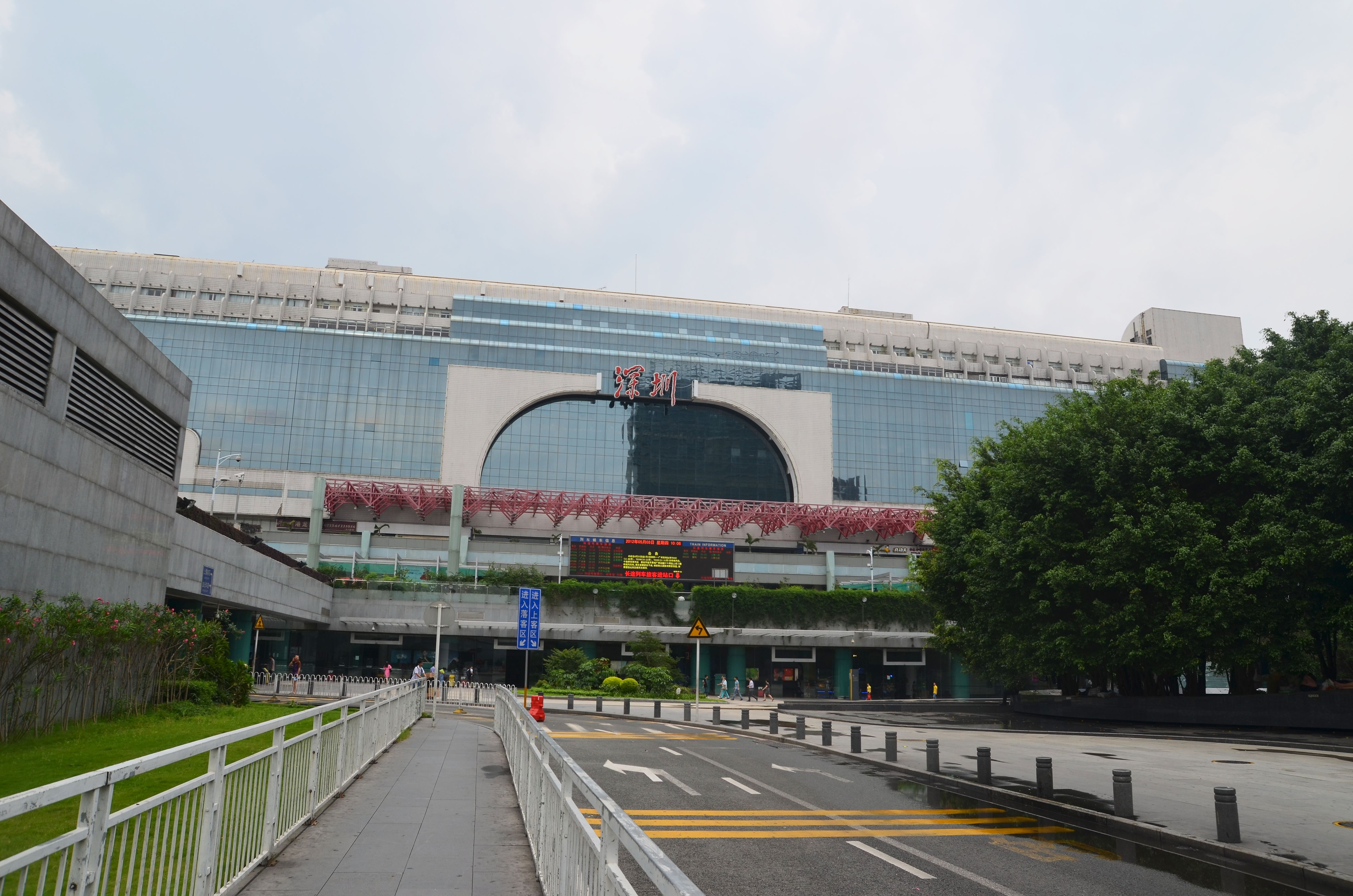 Shenzhen Railway station at Luohu (罗湖.